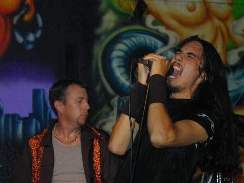 Scott (bass) and Lew Morris (vocals) from the band Liquor Goat performing at the Tattoo Bar in Fort Worth, Texas